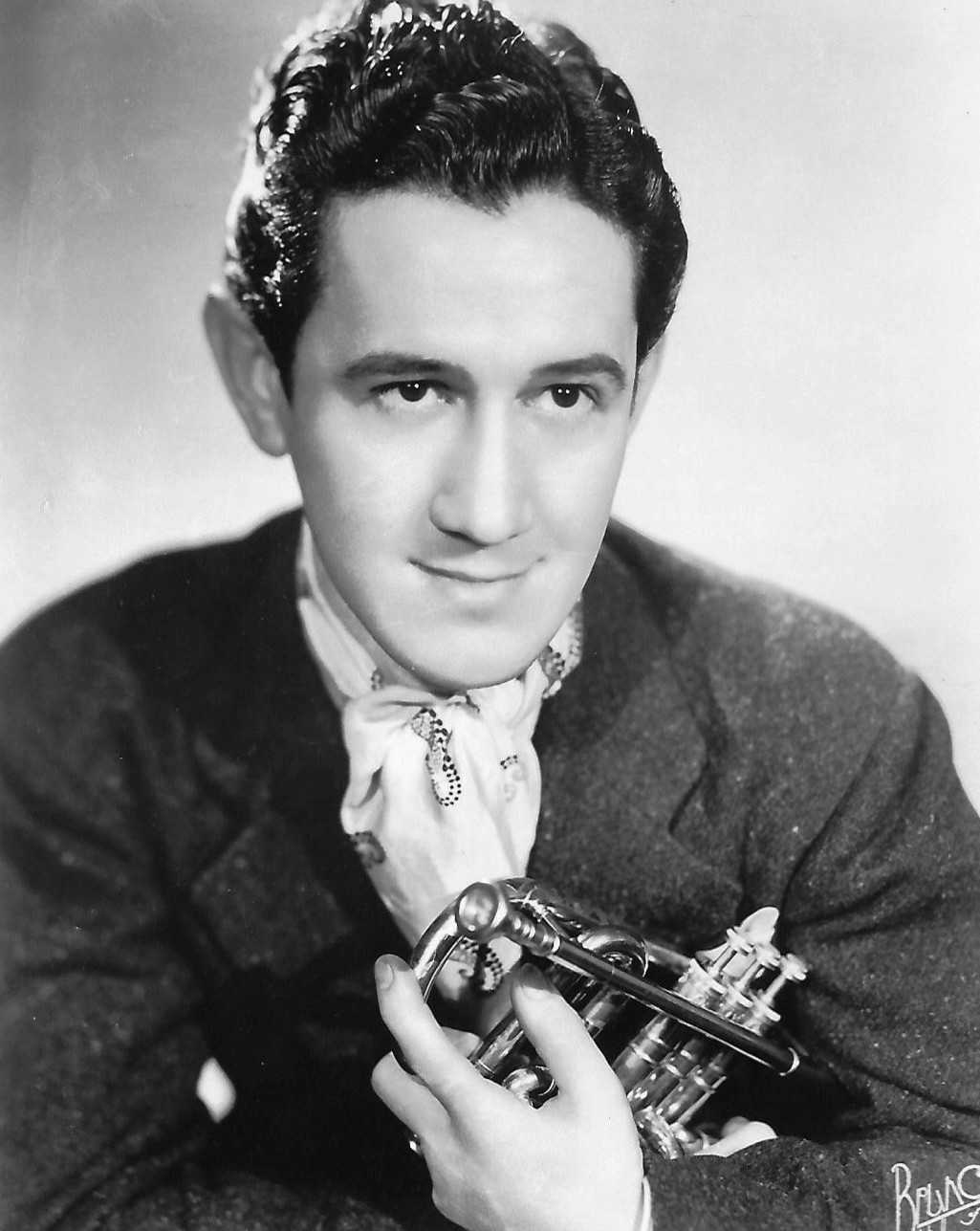 Photo of trumpeter and bandleader Clyde McCoy in 1942.